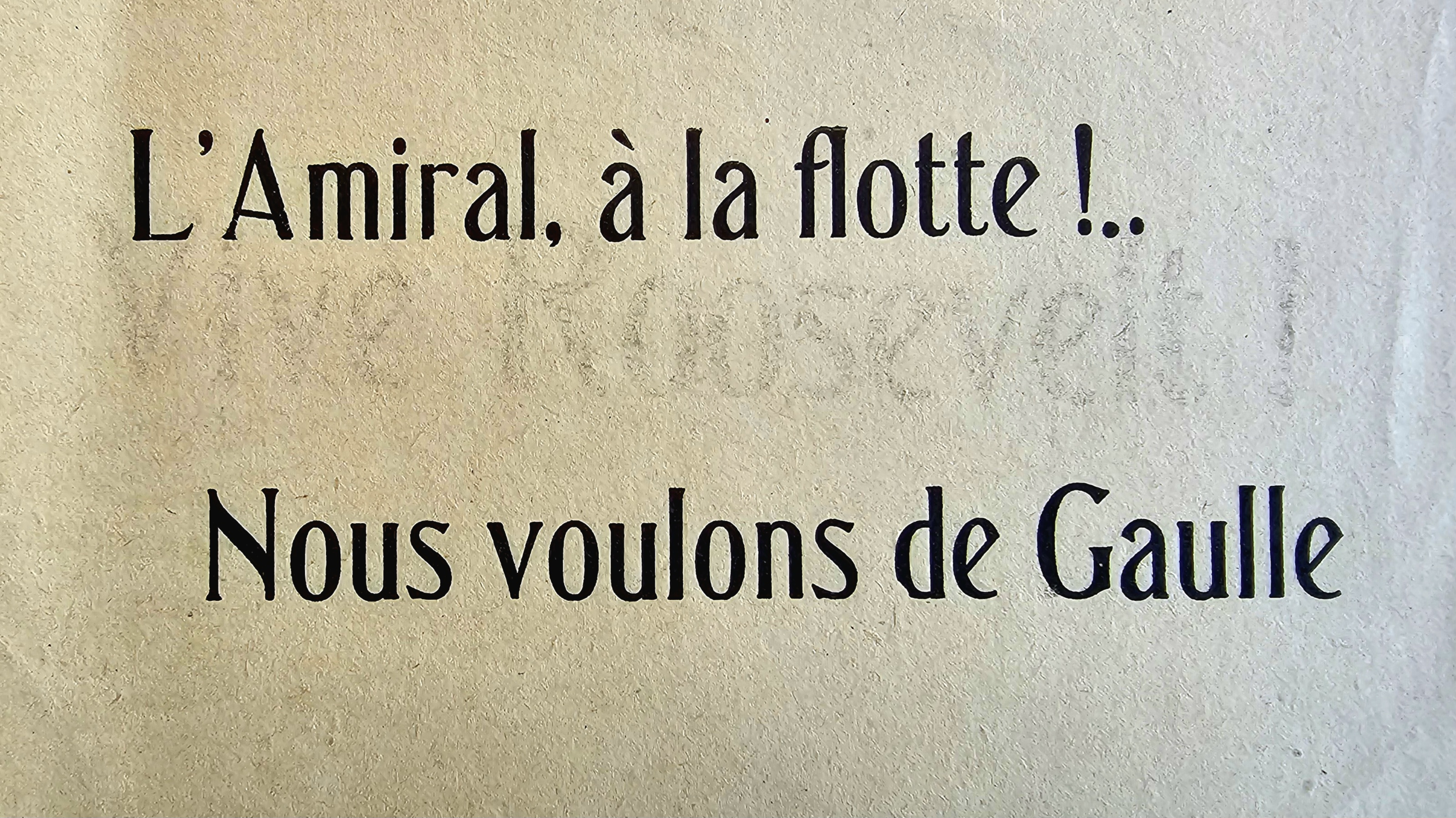 After the success of the Allied landing of 8/11/1942, the Americans prefer to keep trying to rally it all the Vychist civil and military administration in place, which will hunt and imprison until 1943 the resistance fighters, then unprotected, ulcerated and revolted, who launched this leaflet on the military parade in liberated Algiers.